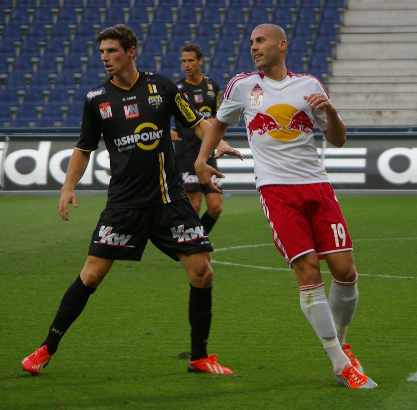 league match